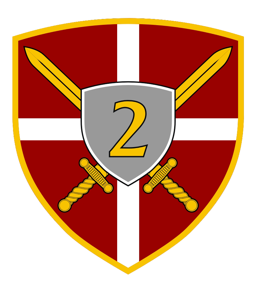 2nd Brigade SLF patch